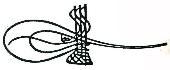 Tughra (i.e., seal or signature) of Murad III, Sultan of the Ottoman Empire (1574-1595). An explanation of the different elements composing the tughra can be found here.